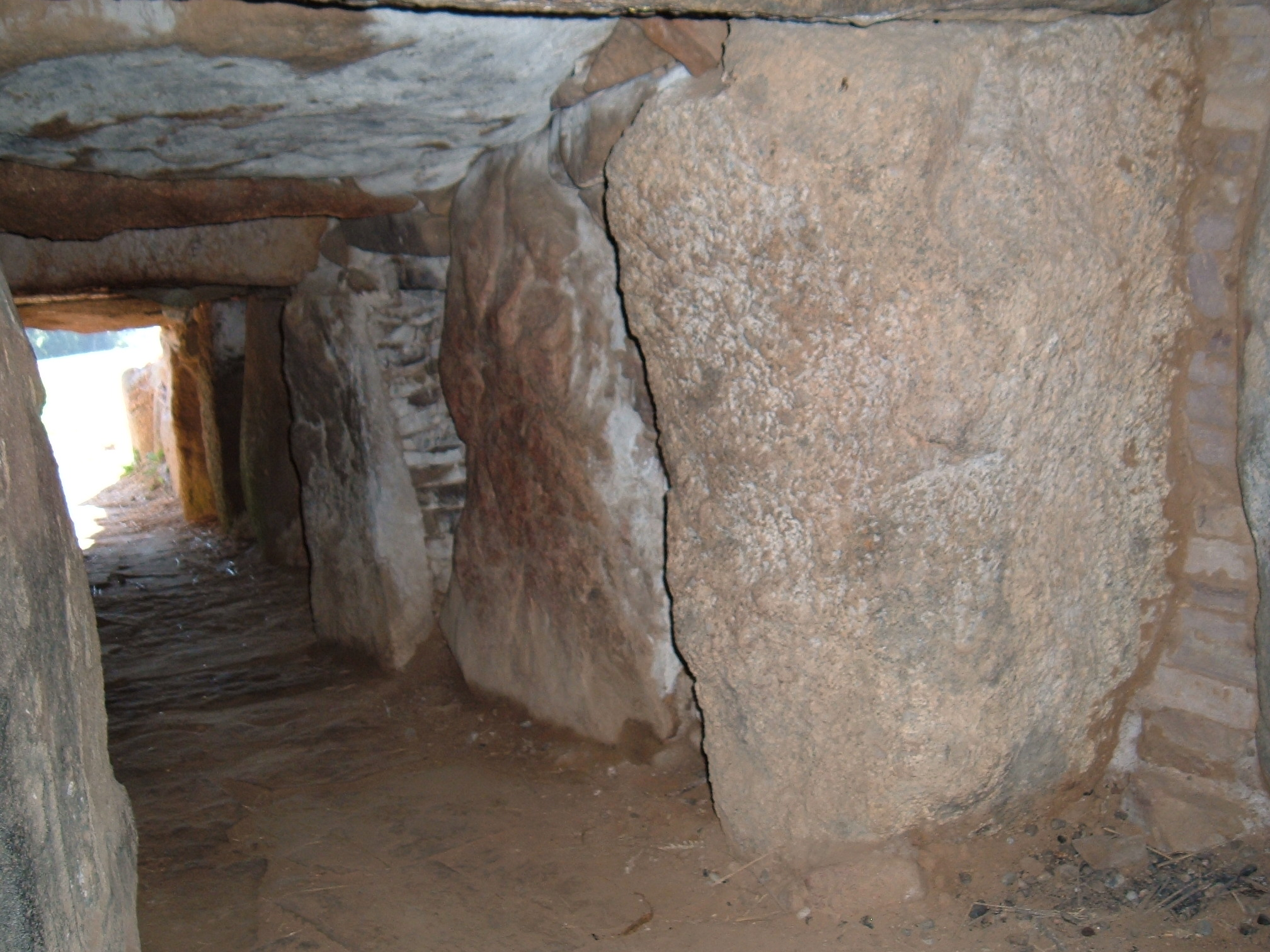 Klekkende Høj passage grave on the island of Møn in Denmark. View from inside south tomb along entrance passage. Taken by contributor, July 2006.